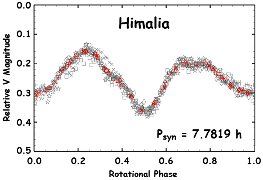 Rotational lightcurve of Jovian moon Himalia from observations taken between August and October 2010 by Fred Pilcher at Organ Mesa Observatory in Las Cruces, MN (USA) (0.36-m telescope, 7 nights, grey symbols) and Stefano Mottola at Calar Alto, Spain (1.23-m telescope, 6 nights, red symbols).